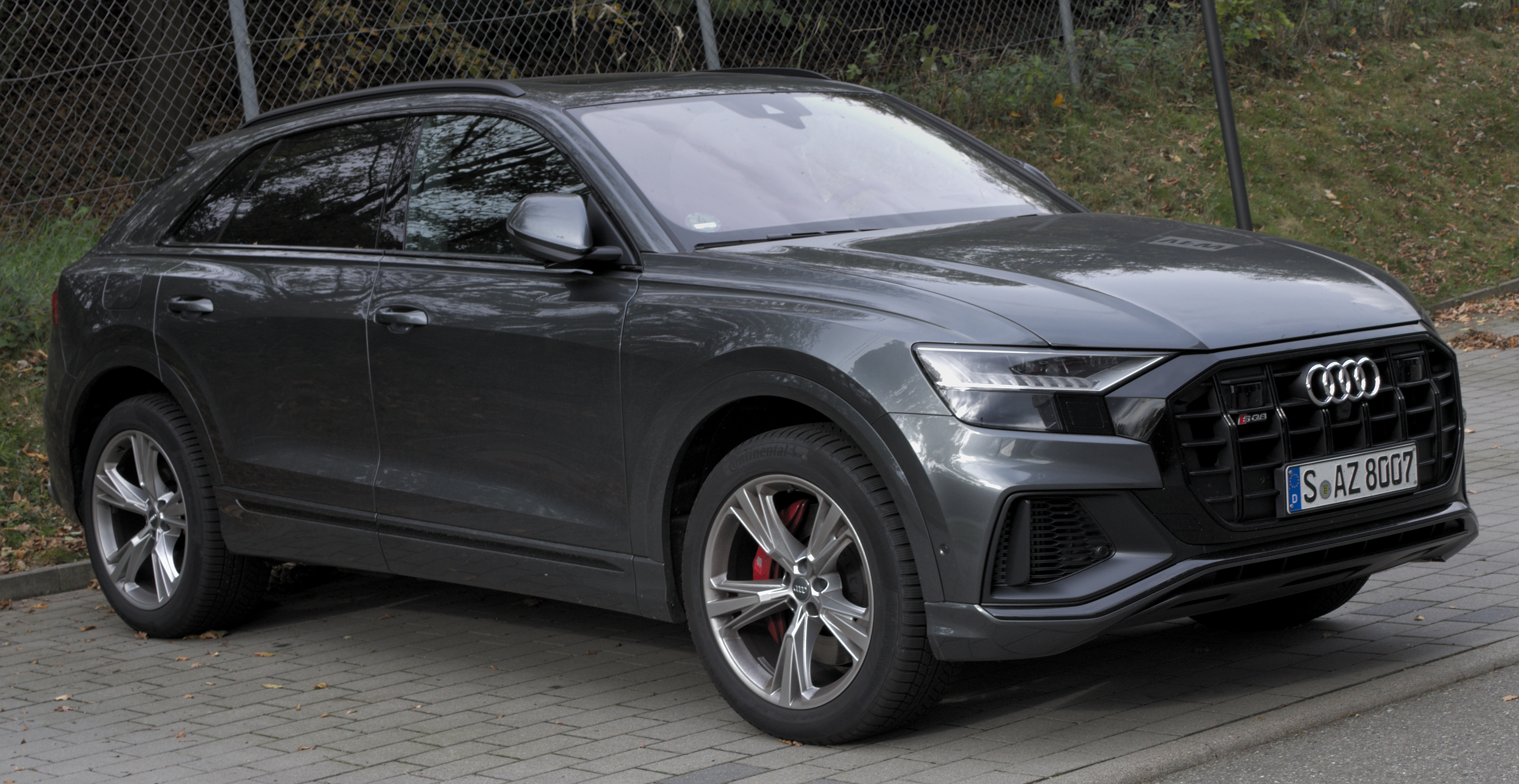 Audi_SQ8 in Stuttgart-Vaihingen